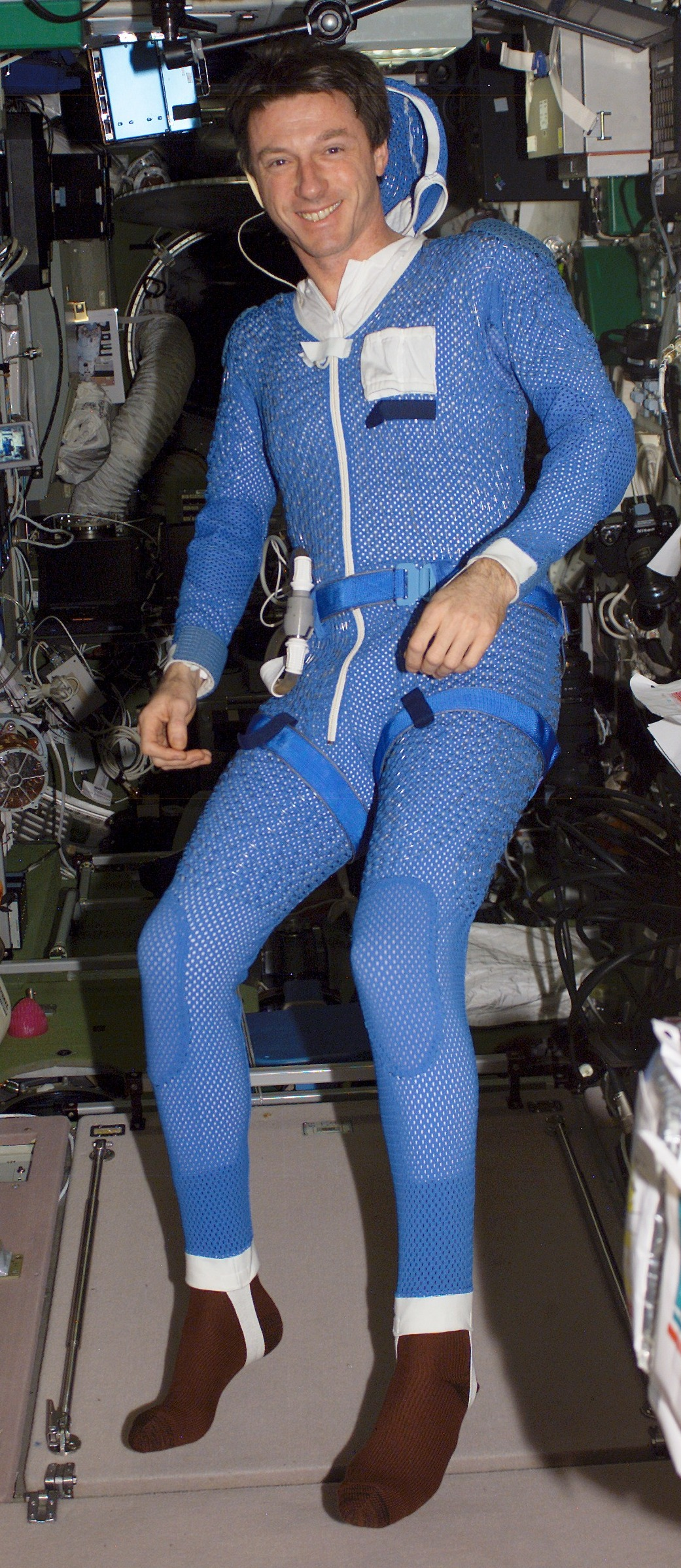 ISS008-E-17196 (26 February 2004) --- Astronaut C. Michael Foale, Expedition 8 commander and NASA ISS science officer, suited in a blue thermal garment prior to donning his Russian Orlan spacesuit, smiles for the camera while floating in the Zvezda Service Module on the International Space Station (ISS).